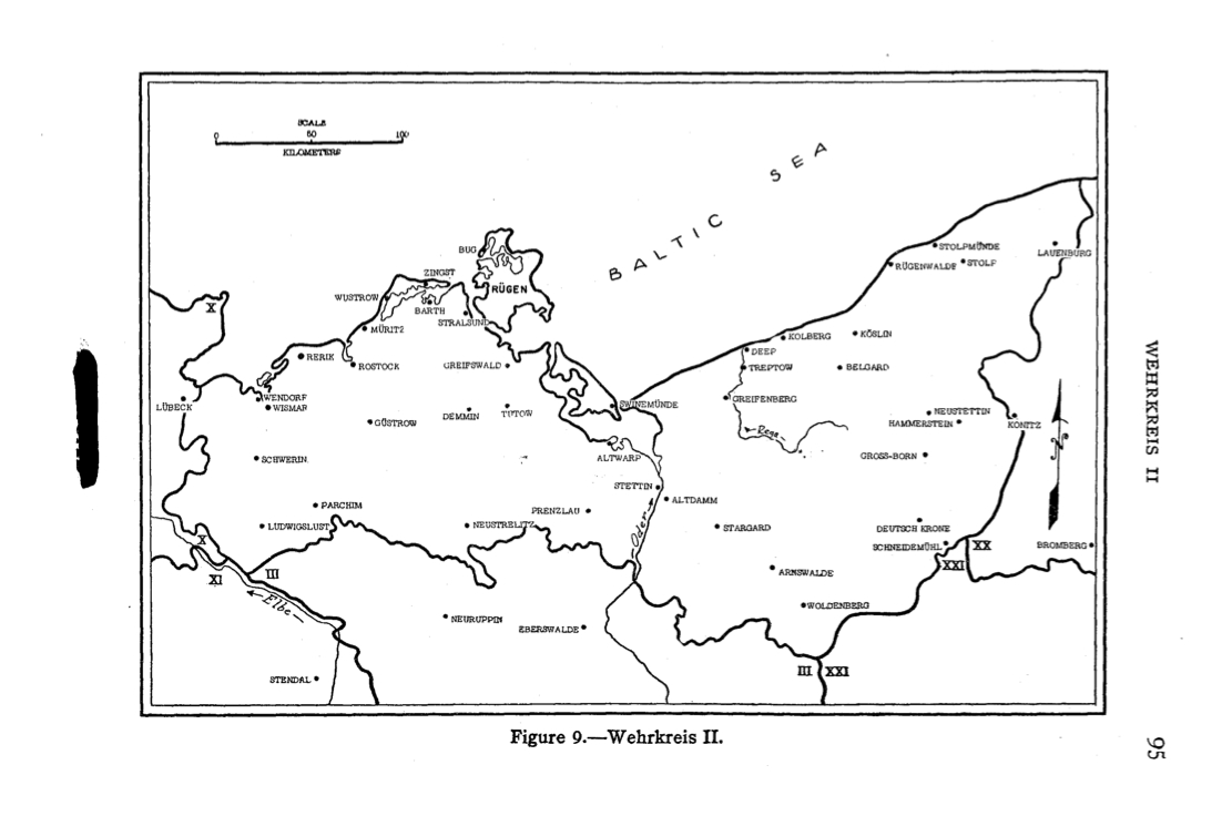 Map of the Wehrkreis, Military District, II.